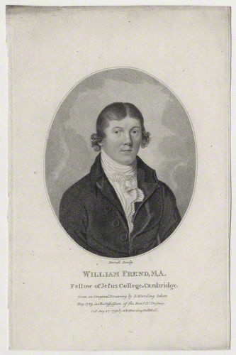 Portrait of William Frend (1757–1841).